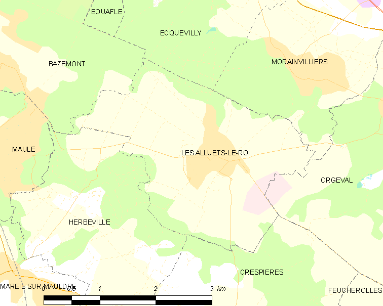 Map of French municipality Les Alluets-le-Roi